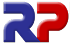 Logo of Radyo Pilipinas.